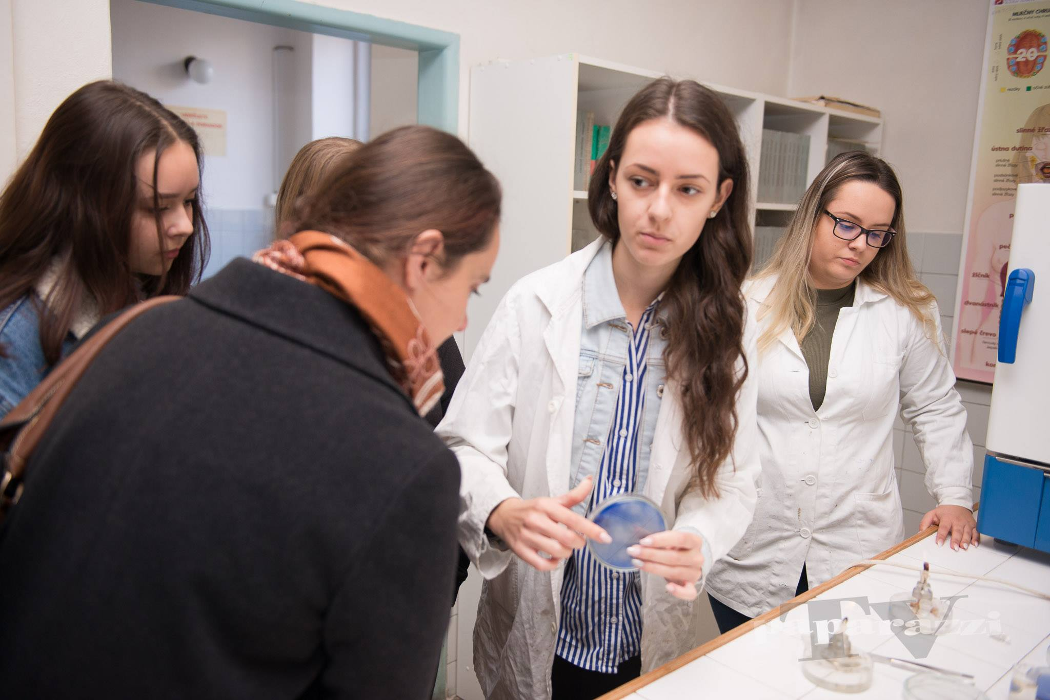 SSOS DSA Trebisov